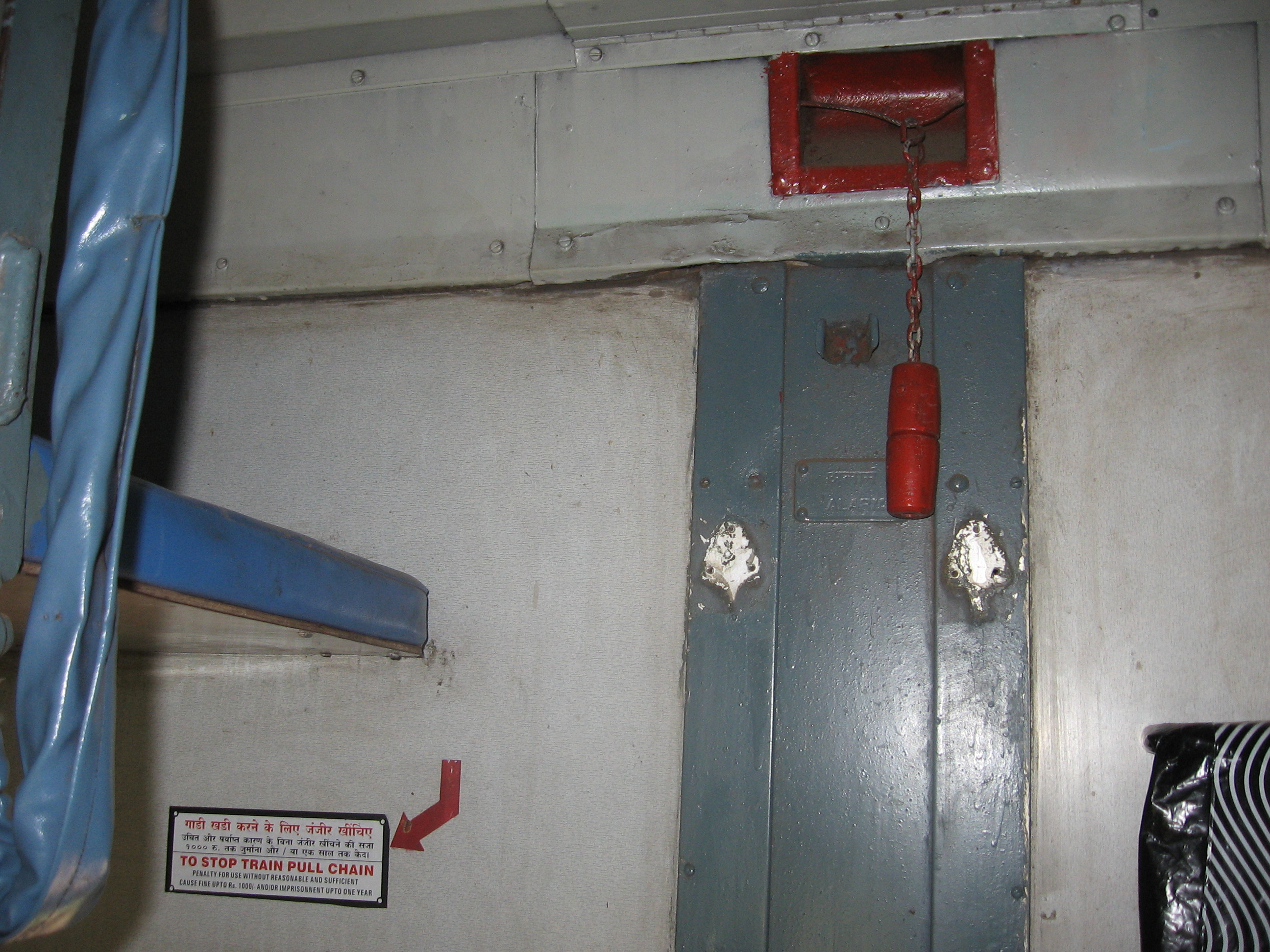 Chain to stop train in trains operated by the Indian Railways